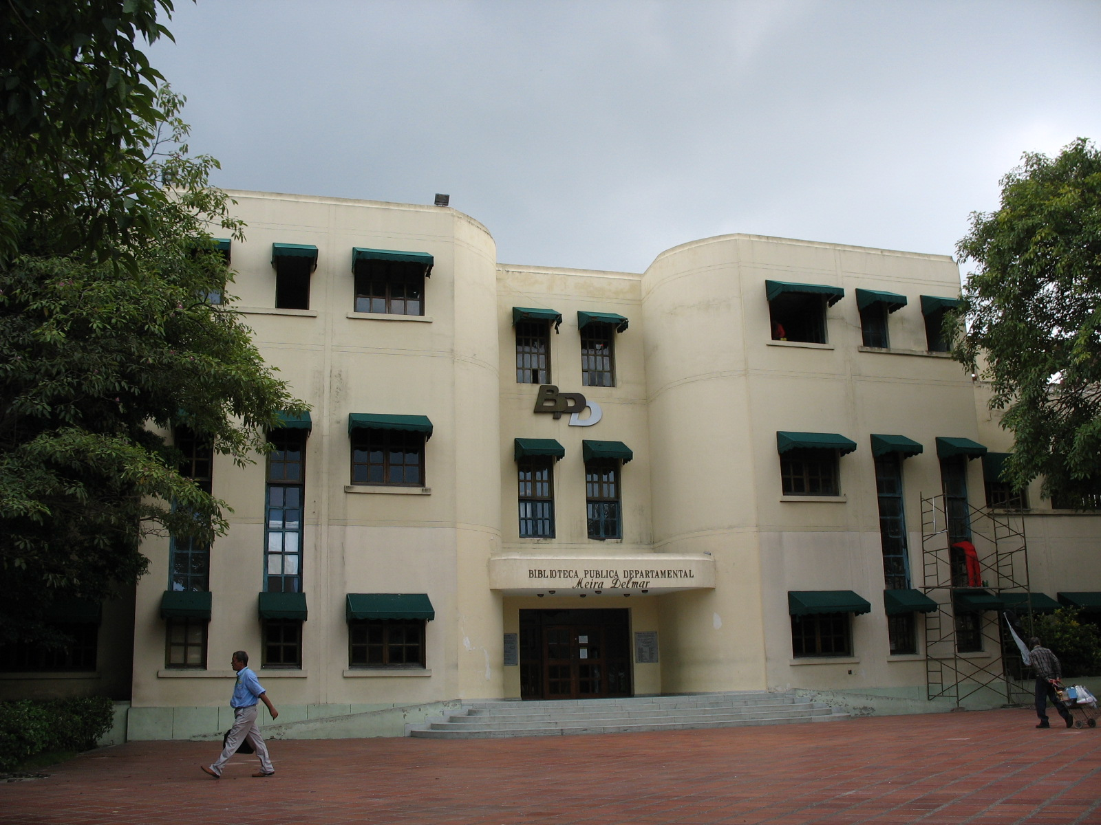 Barranquilla - State Library.